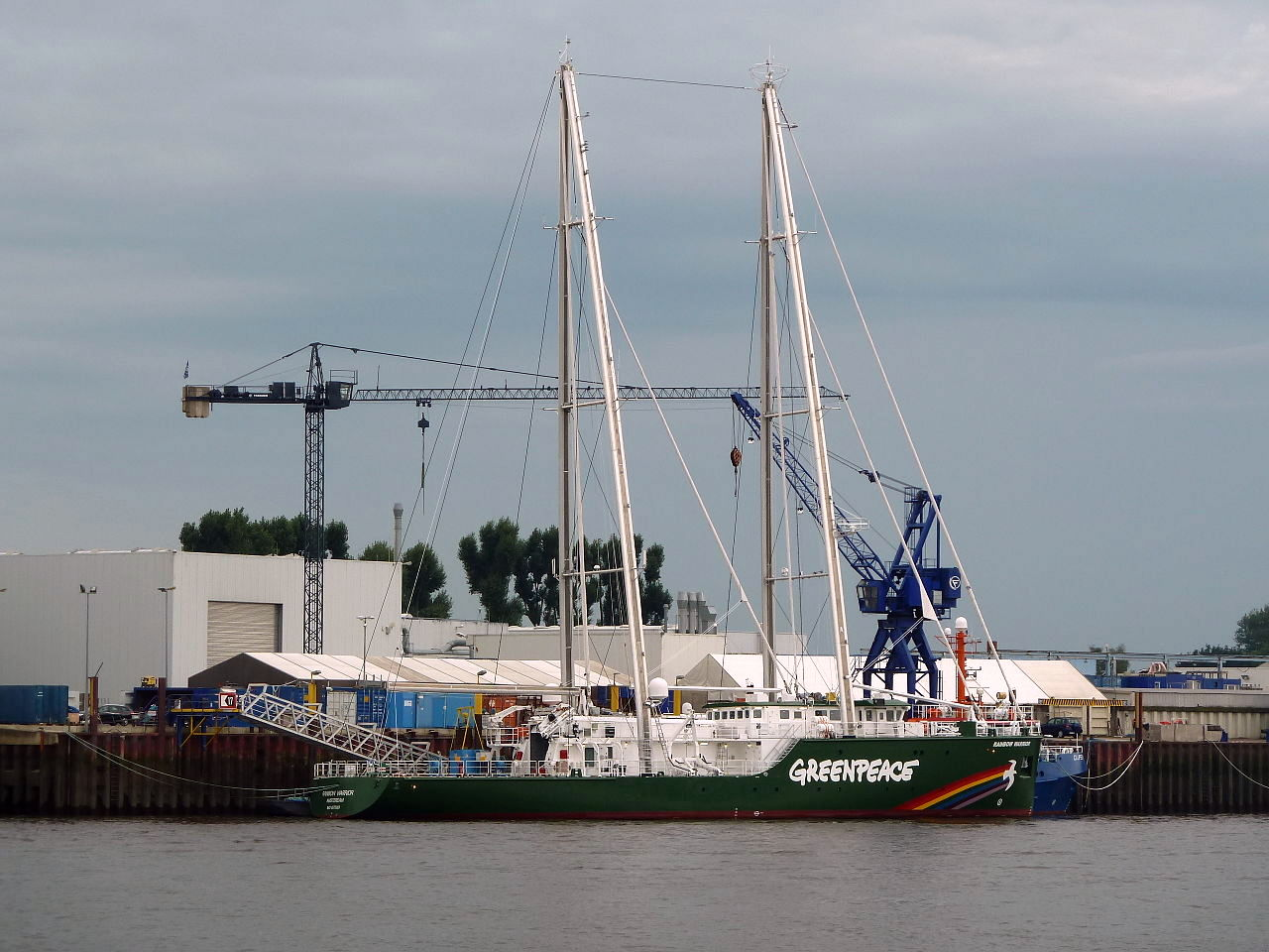 Greenpeace ship Rainbow Warrior III finalizing in the Fassmer shipyard, near Bremen in Germany.